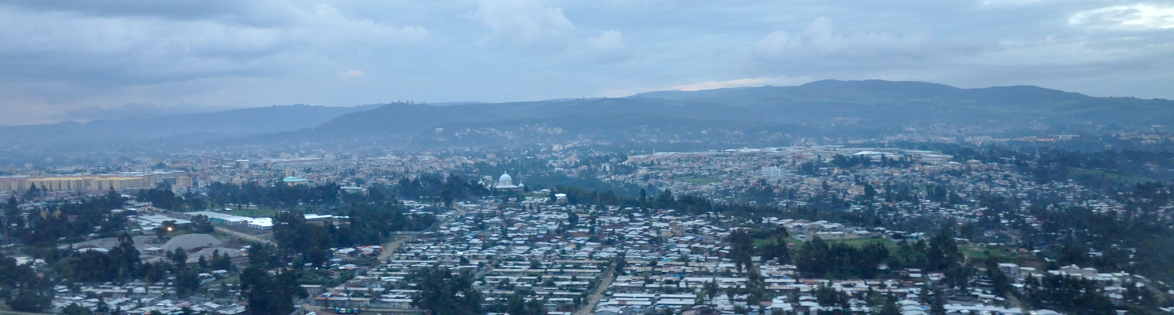 Entoto Mts.